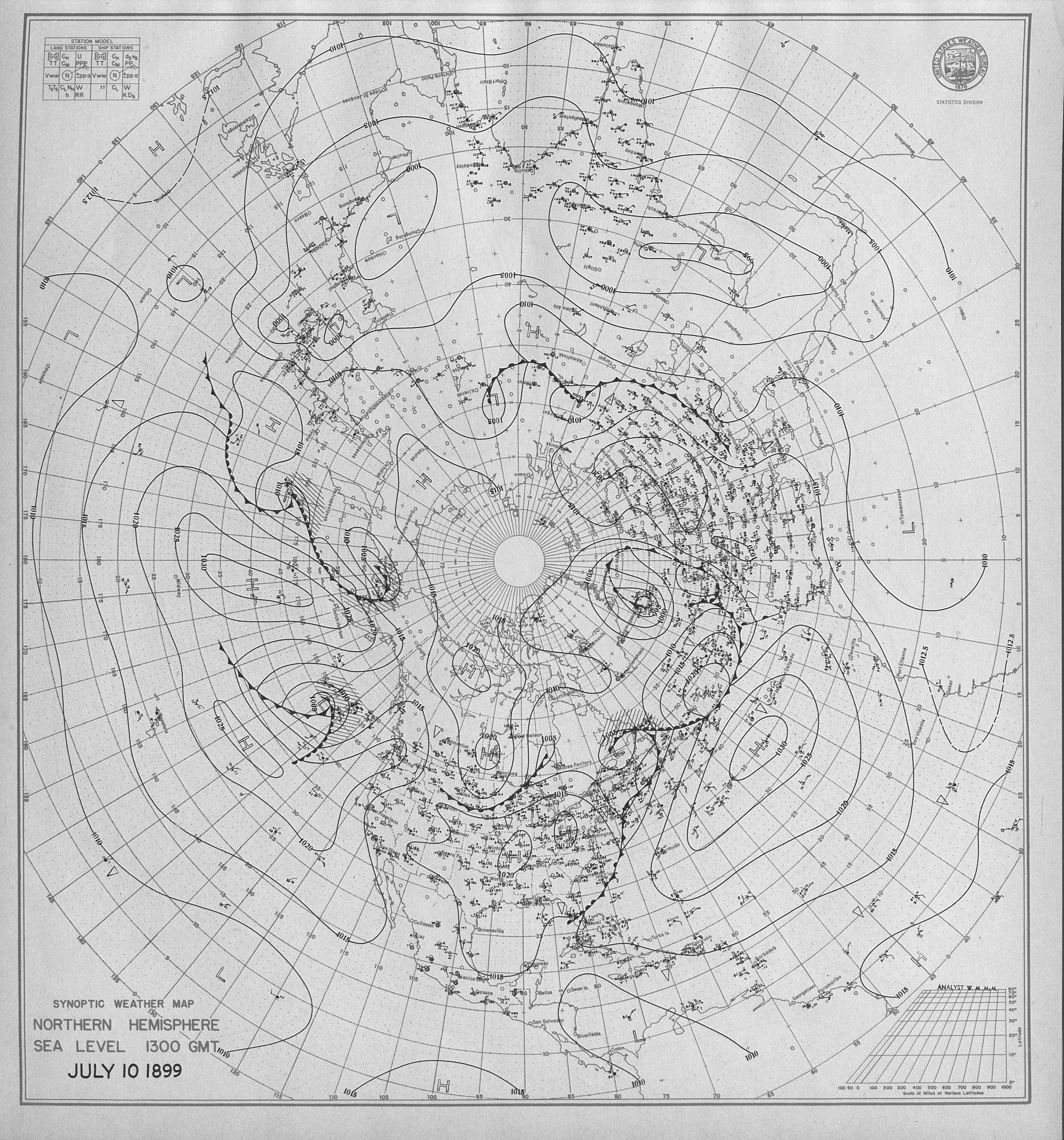 Northern hemisphere weather map for 1899-07-10